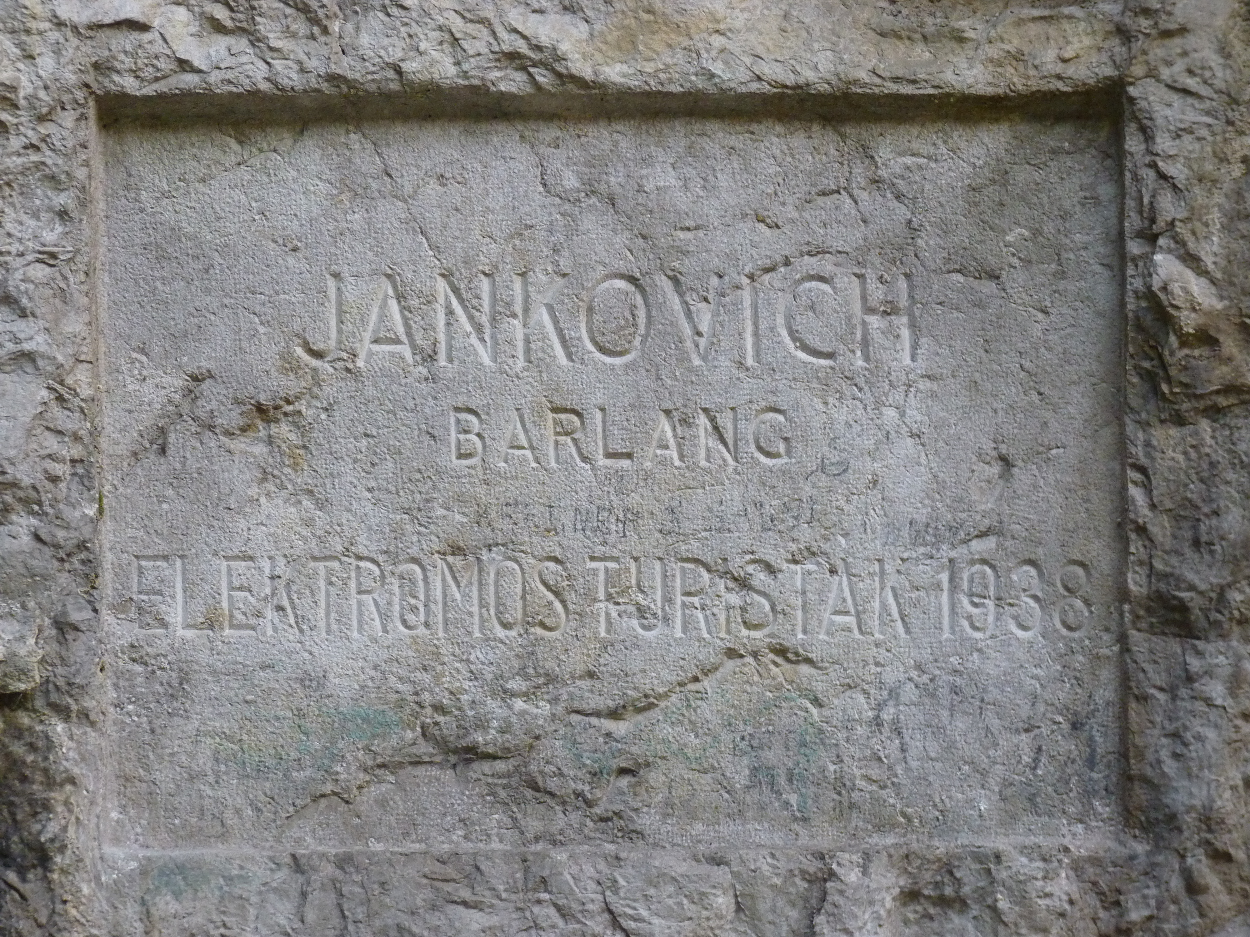 Jankovich Cave plaque